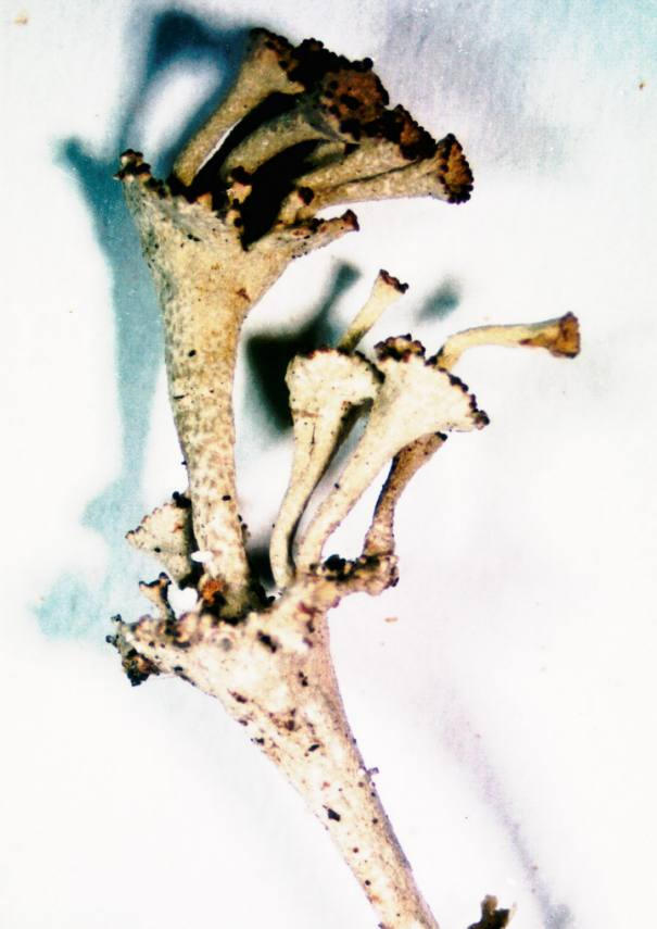 Cladonia cervicornis subsp. verticillata (Hoffm.) Ahti, 1980 (photograph of a herbarium specimen taken through a dissecting microscope (x6) showing two tier proliferations from the centers of cups) Growing on soil on the bank of Gores Mill Road, about 0.5 mile from Westminster Pike, Baltimore County, Maryland, USA; collected and identified by Elmer George Worthley (No. L-16, 1 Apr 1983); specimen is now in the Lichen Herbarium of the New York Botanical Garden. (millimeter scale)